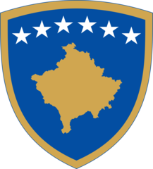 Emblem of government Kosovo